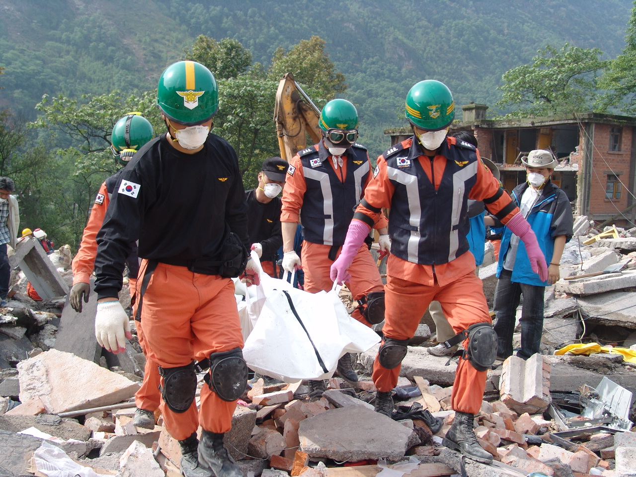 서울특별시 소방재난본부 소장 사진.photos of Seoul Metropolitan Fire&Disaster Headquarters.